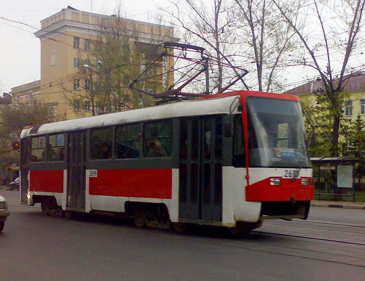 Tatra T3 modernized, Nizhny Novgorod, Russia.